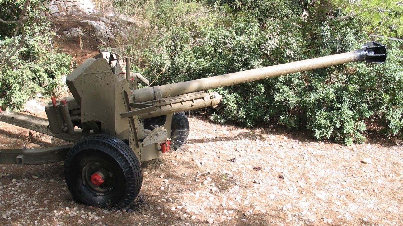 Description: DEFA 90 mm gun on QF 6 pounder carriage, in Beyt ha-Totchan, Zichron Yaakov, Israel. 2005. Source: Photo by me, User:Bukvoed.